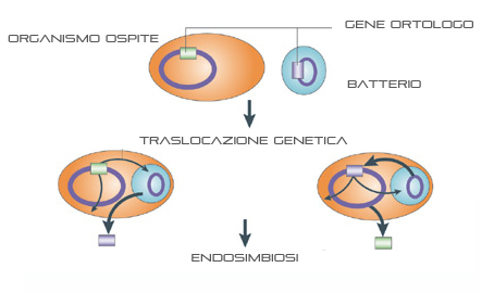 Endosymbiosis scheme